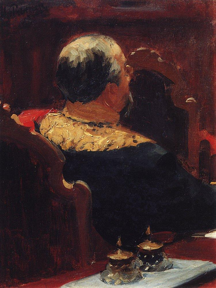 Portrait of senator and president of the General Lutheran Consistory baron Aleksander Aleksándrovich Ikskul von Hildenbandt. Study for the picture Formal Session of the State Council. Oil on canvas. 196 × 71 cm. The State Tretyakov Gallery, Moscow.